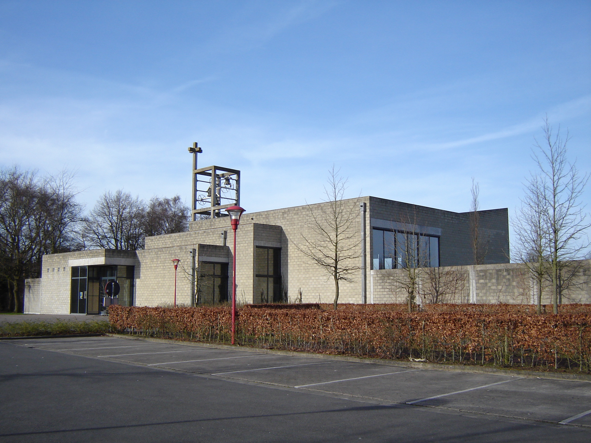 Church of Saint Thomas of Canterbury in Male. Male, Sint-Kruis, Brugge, West Flanders, Belgium.